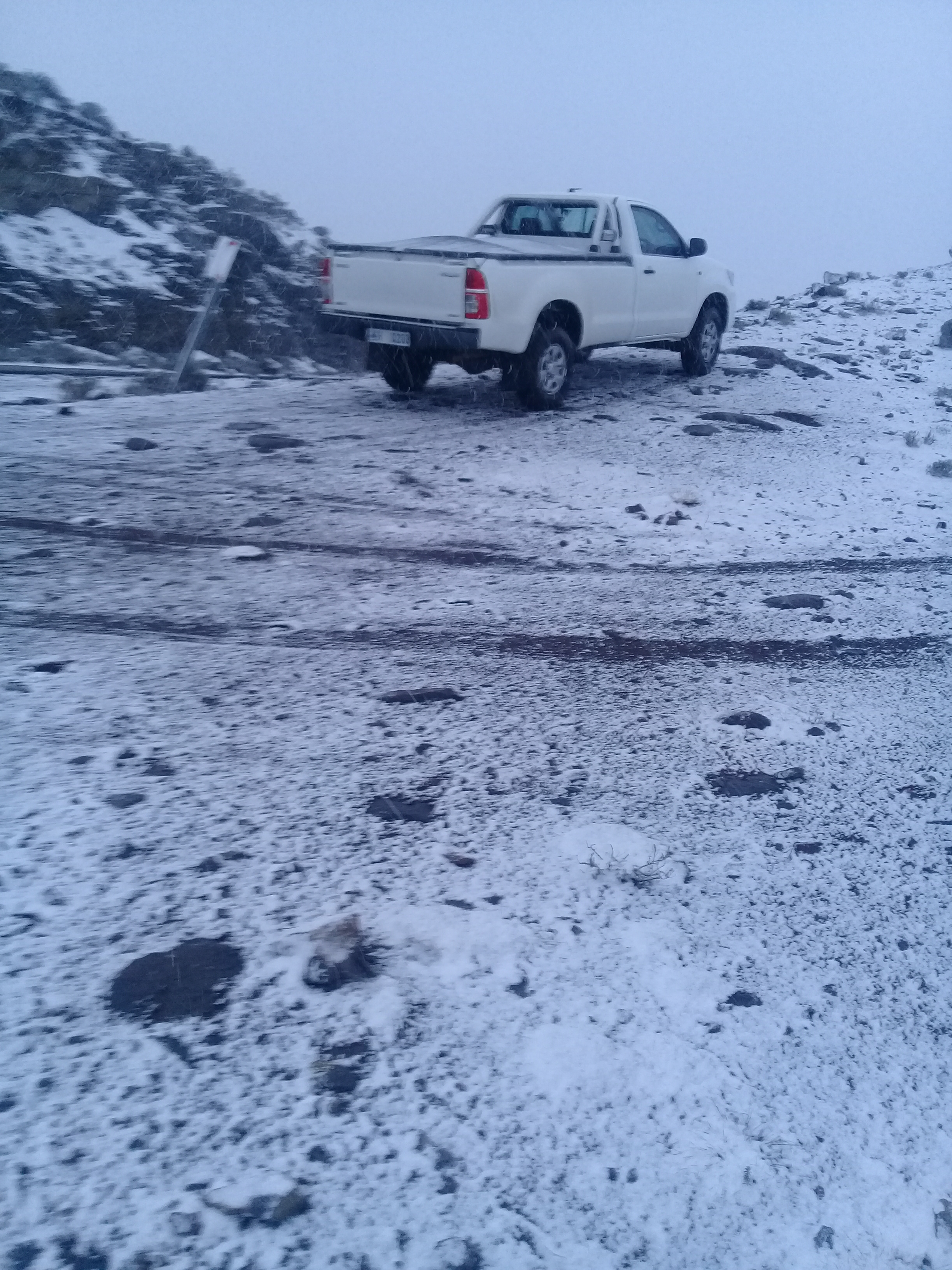 My Country Lesotho is known for its great Mountains and Snowfall and this is a District called Semonkong where Snow had fallen. This is an image with the theme "Play" from: Lesotho